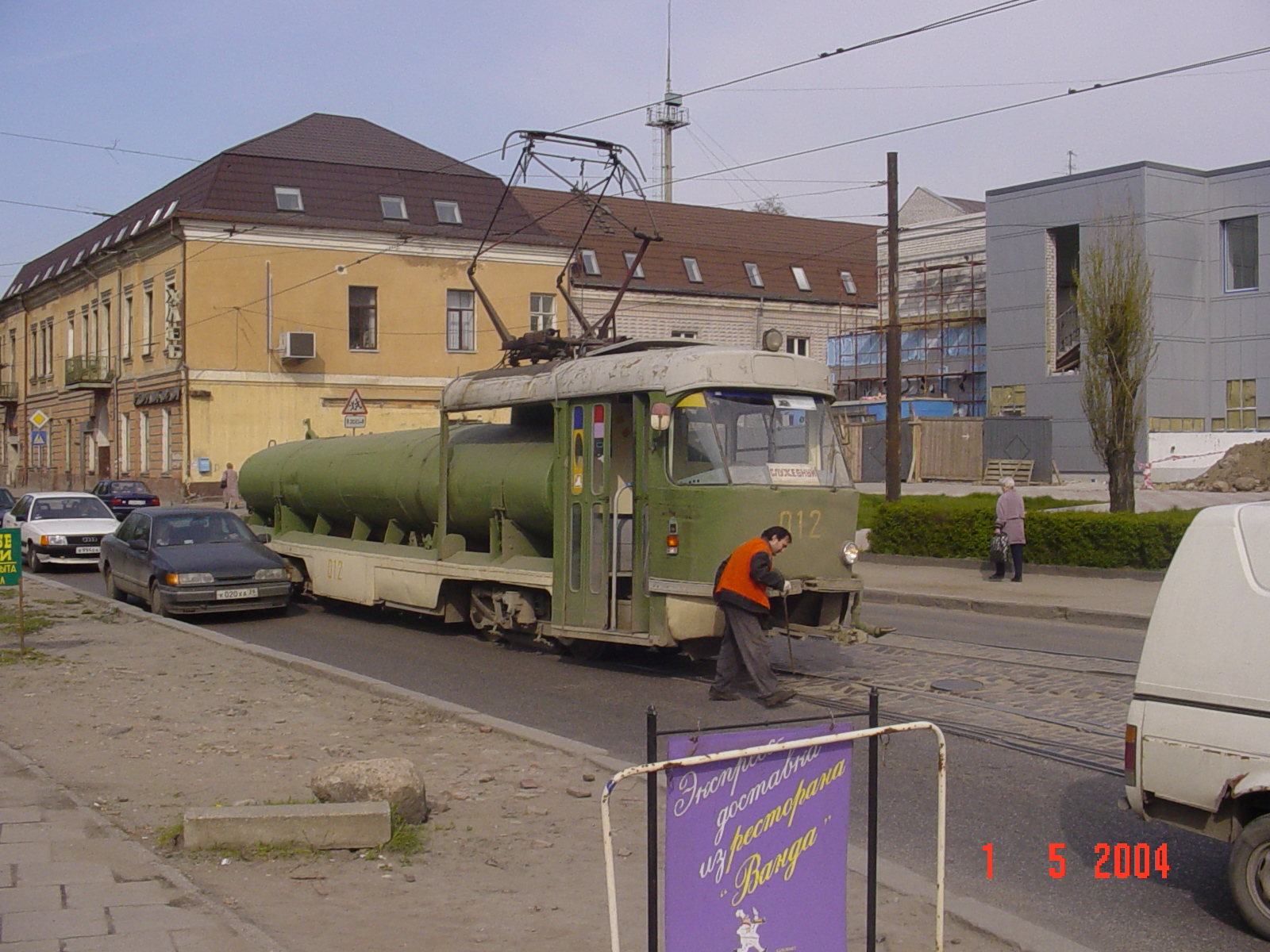 A reconstructed T4 streetcar is used in Kaliningrad for sprinkling streets in hot weather. The picture shows it in Shevchenko street before turning to 9th April street.